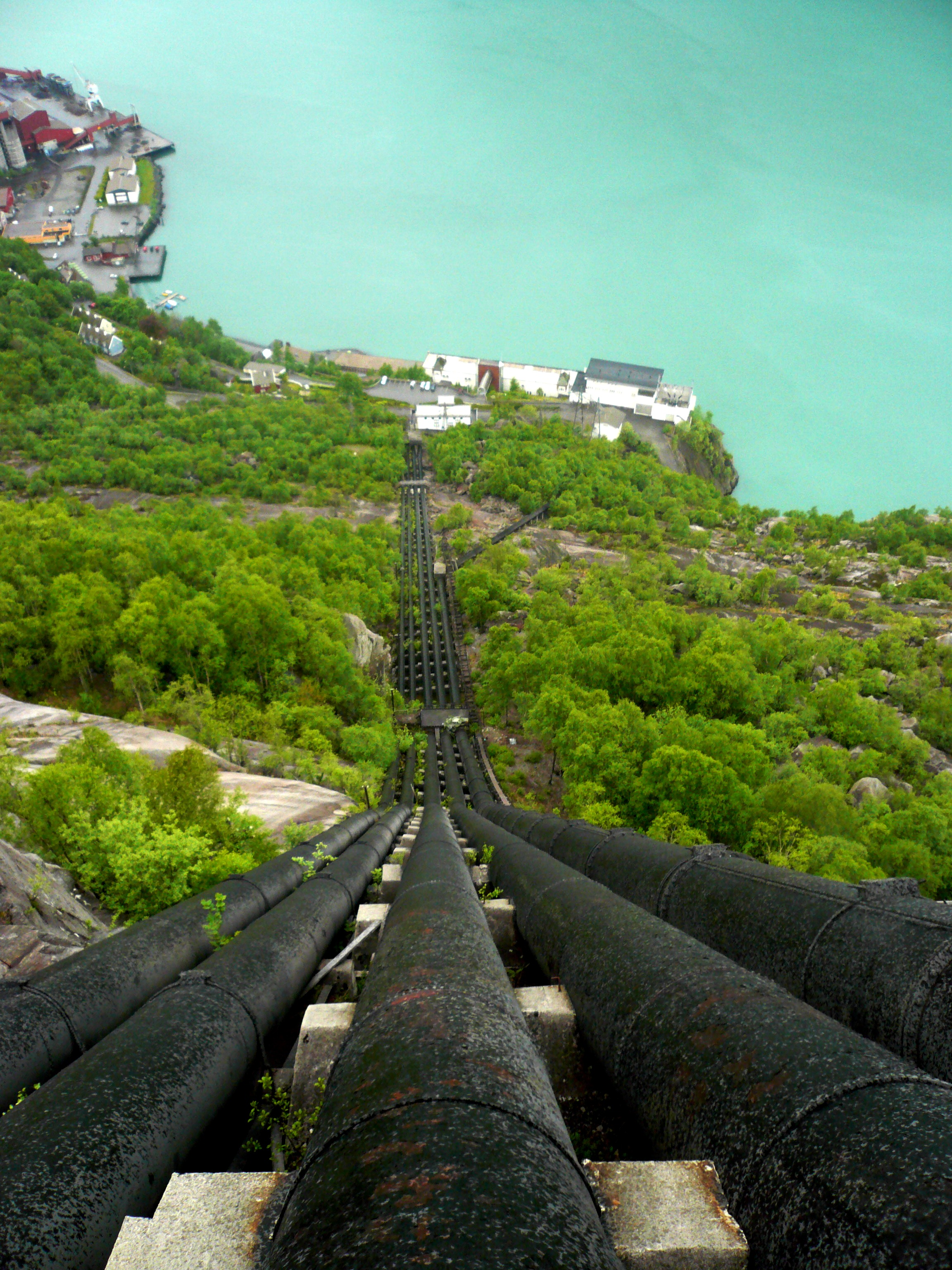 Tyssedal